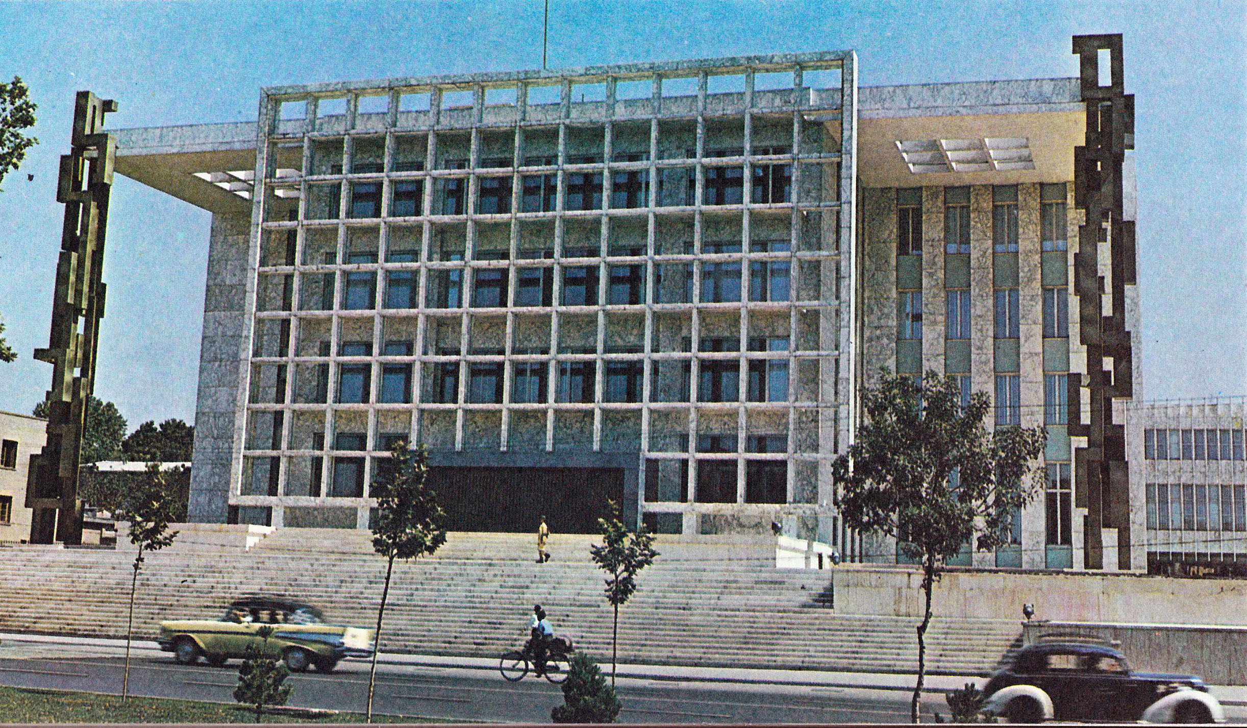 The Senate Palace of Iran (in Persian: Kakh-e Majles-e Sena) or The Senate House of Iran was the upper house legislative chamber in Iran from 1949 to 1979. The building was designed by the Iranian architect, Heydar Ghiai (died 1985)